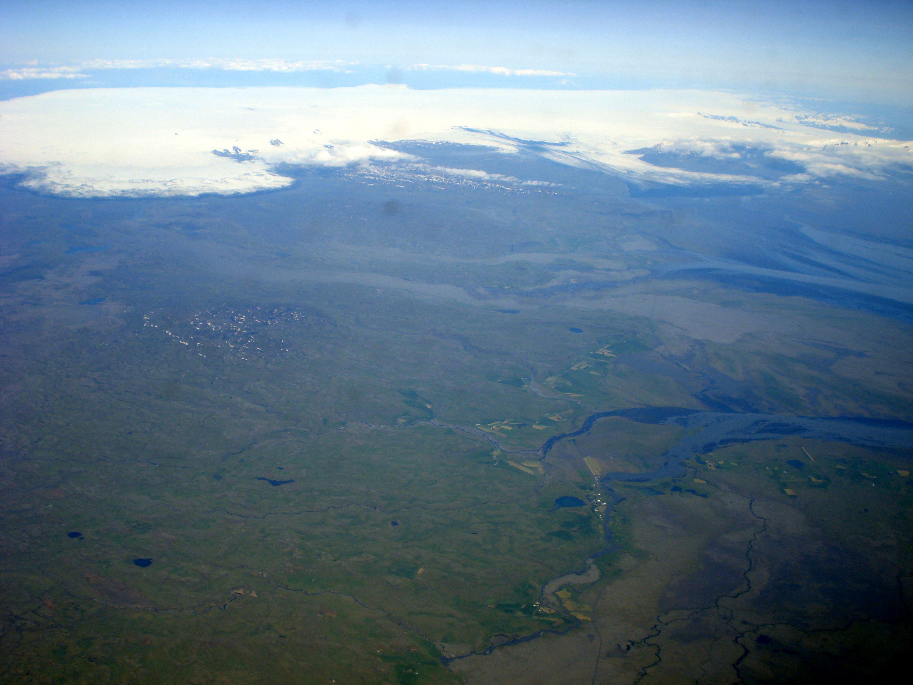 Síðujökull and Skeiðarárjökull (West-Vatnajökull) glacier in Iceland